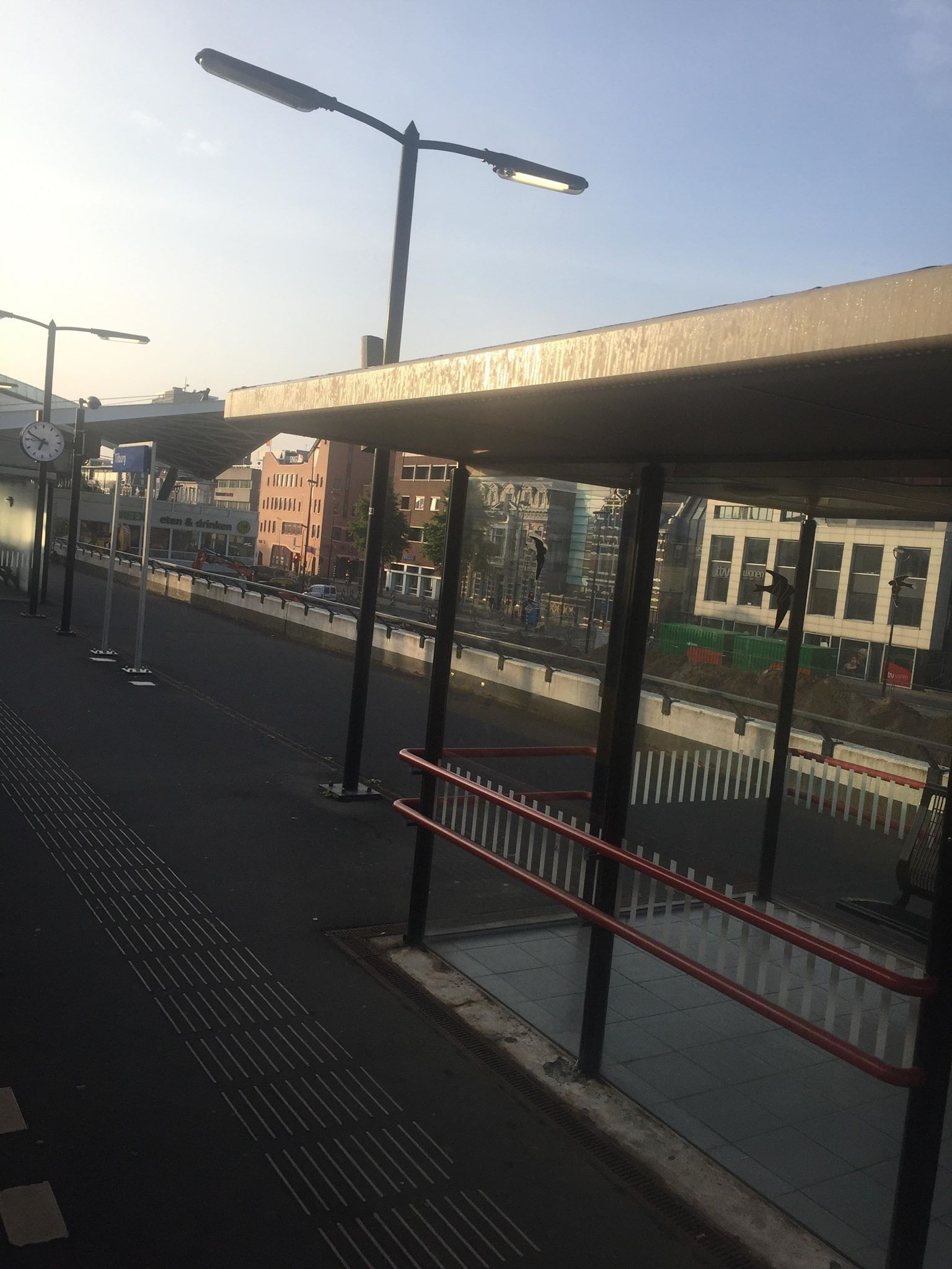 Morning view on Tilburg Railway Station